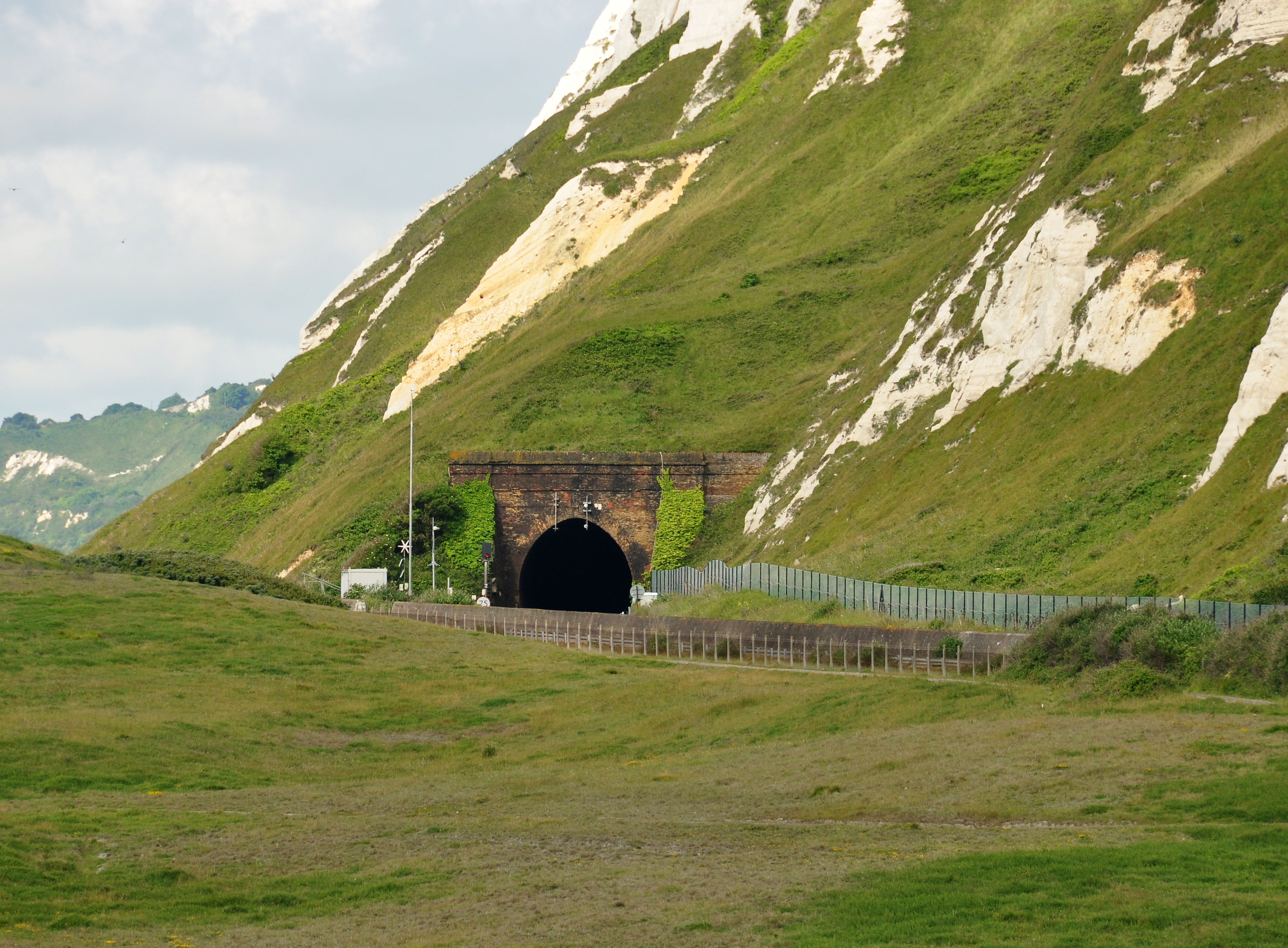 The White Cliffs above Samphire Hoe, near Dover, Kent. The entrance to the tunnel under Abbot's Cliff is visible.